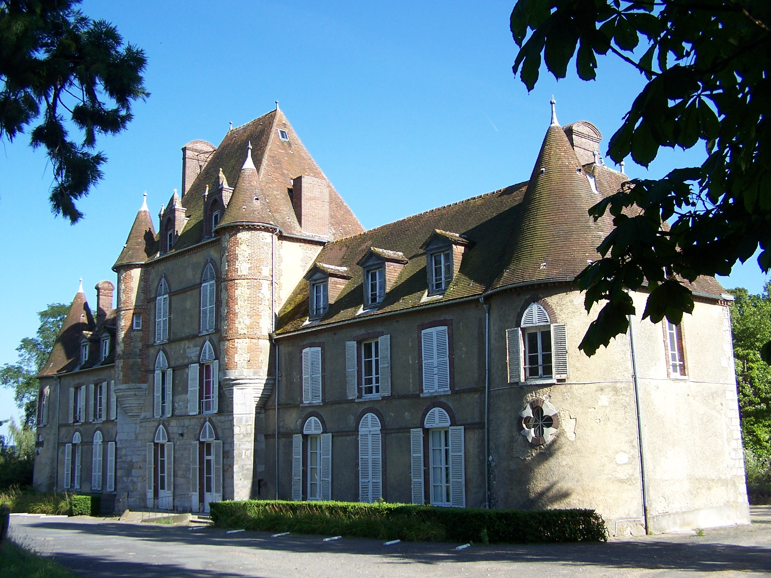 Castle of Richebourg (Yvelines, France)